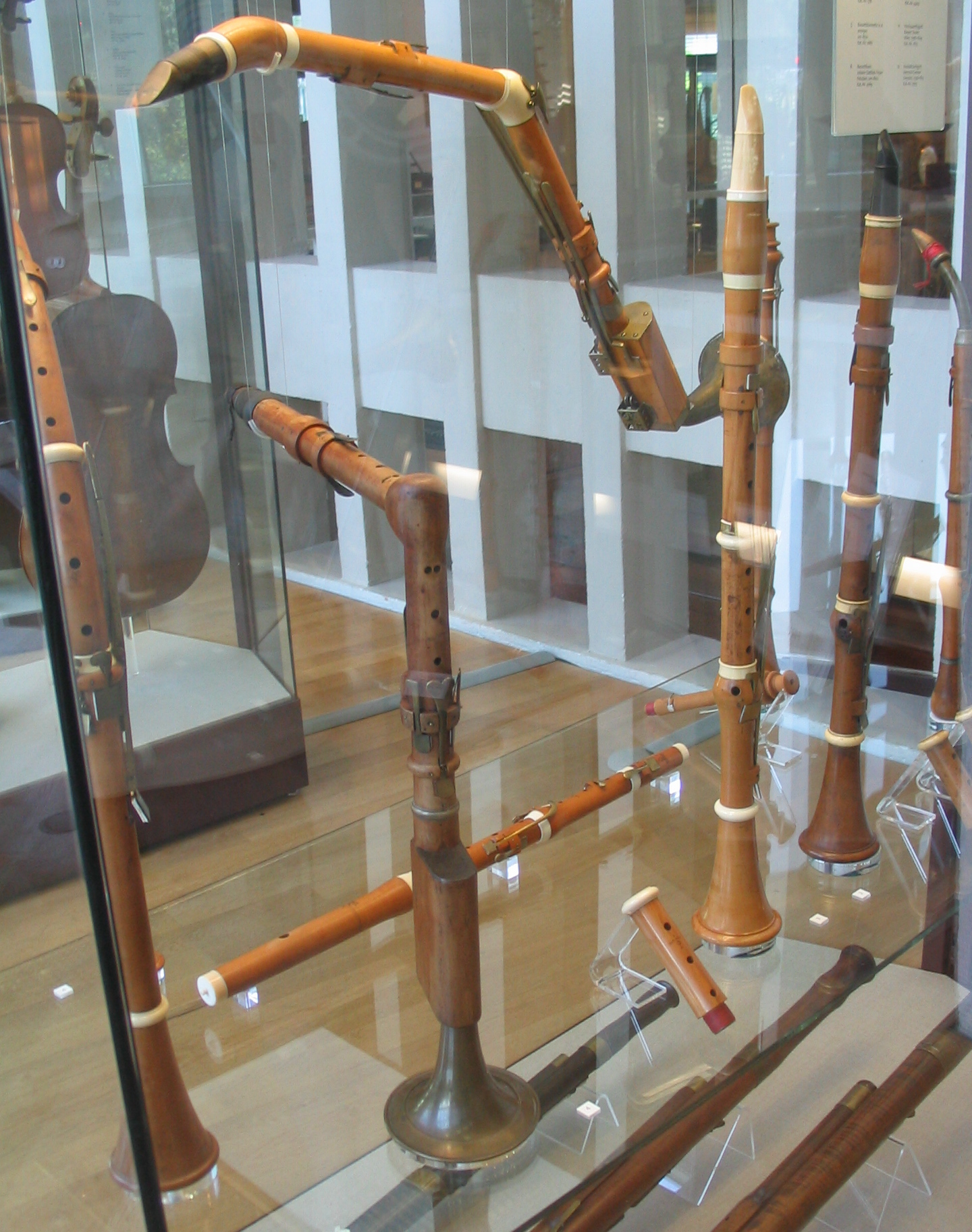 Clarinets and corni di bassetto (Basset horns). 18th Century. Museum of Musical Instruments. Berlin.